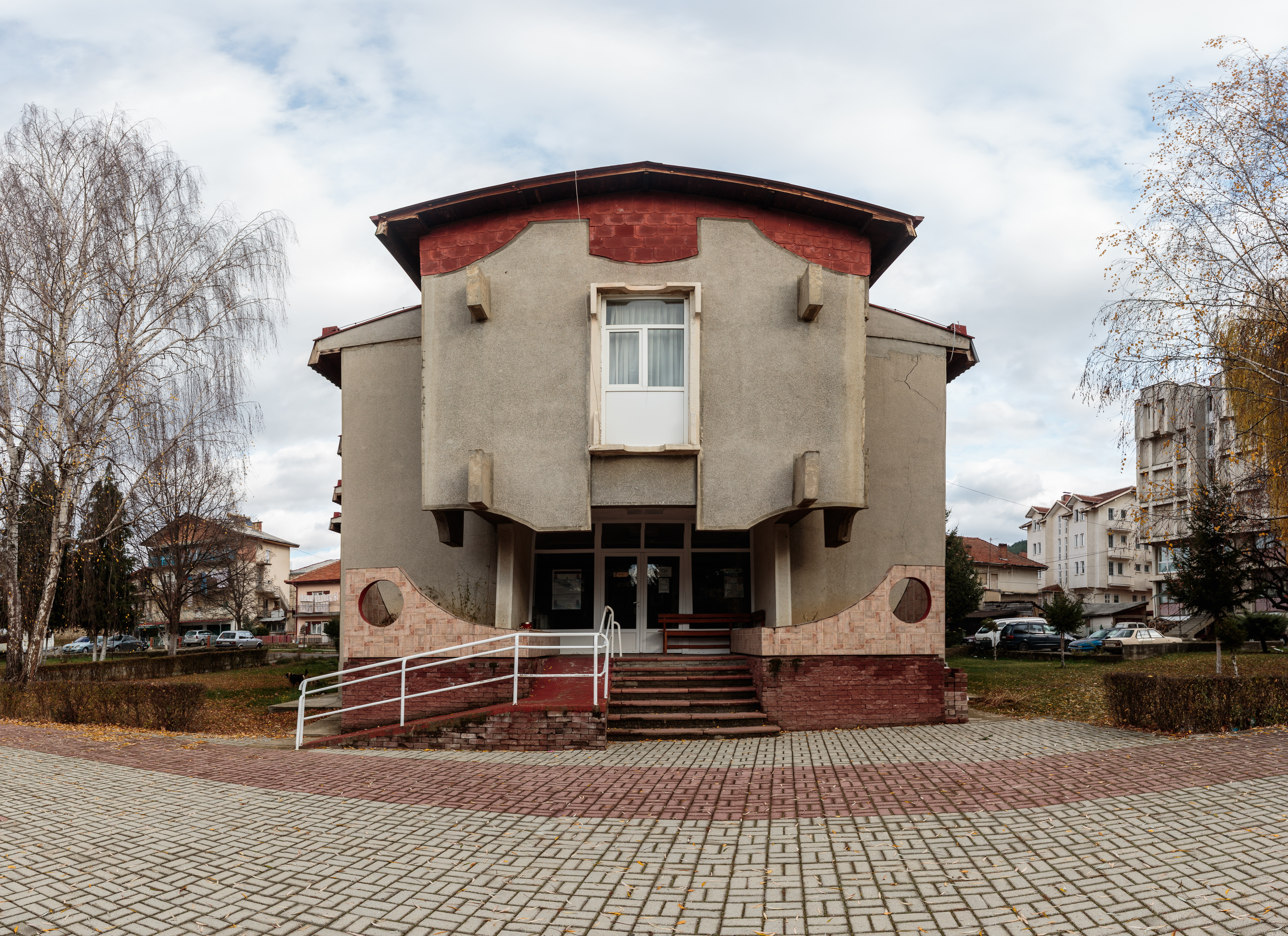 Primary court in Berovo, Macedonia